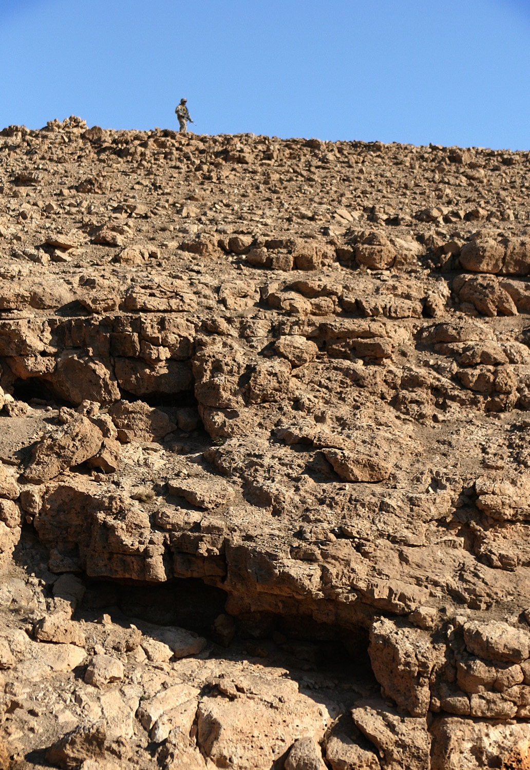 Caption: Lance Cpl. Daniel K. Brown, a field radio operator with Company C, 1st Light Armored Reconnaissance Battalion secures a ridge overlooking caves west of Mosul. Many of the caves, located inside wadis of the Sinjar Mountains, are used to hide foreign fighters and weapons moving into Iraq from Syria.